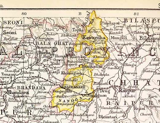 Kawarda-Khairagarh map section. Imperial Gazetteer of India